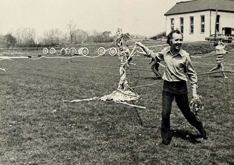 May Day being celebrated in 1973 by Bennett Lamond